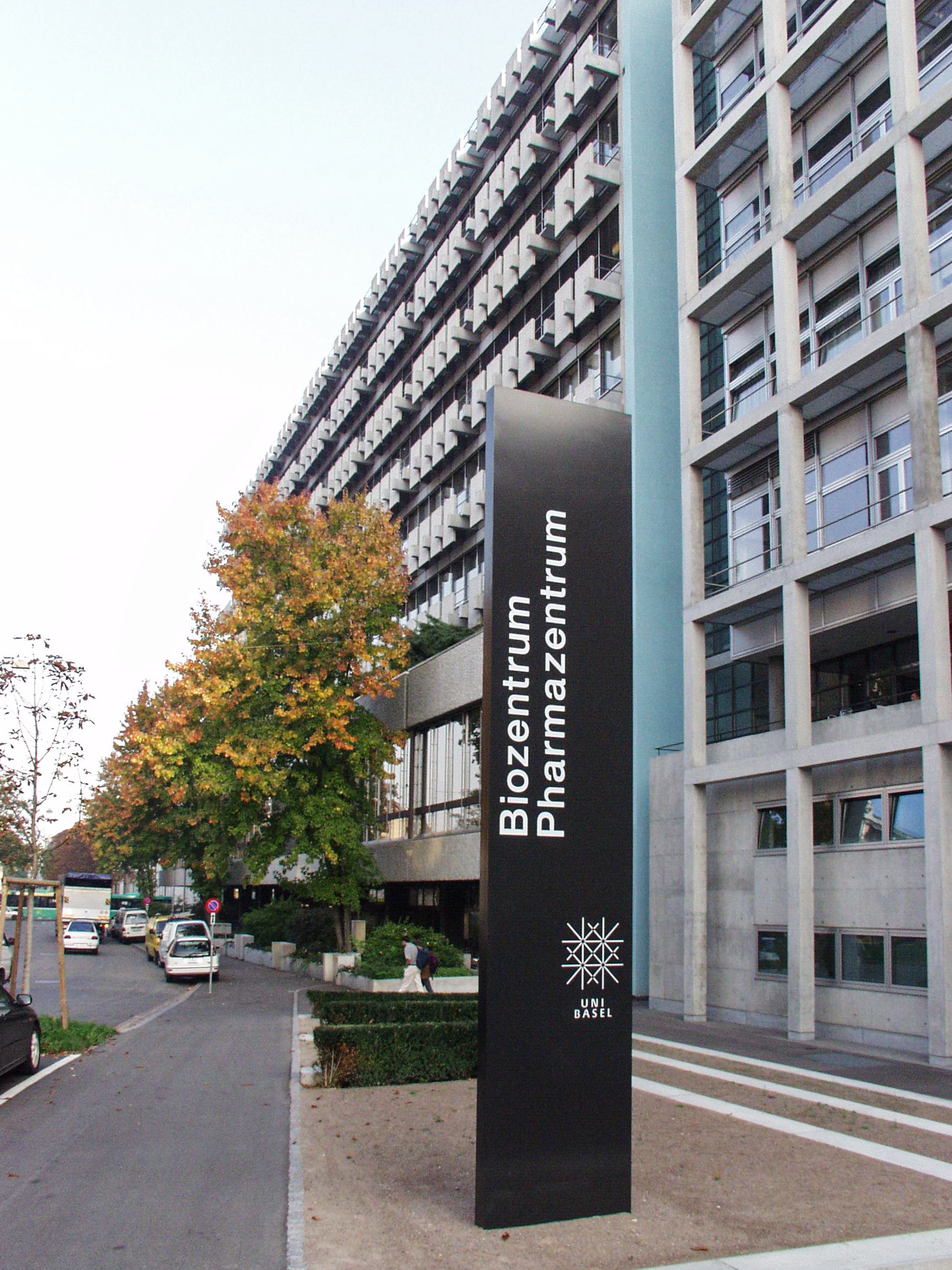 Stele in front of the Biozentrum Pharmazentrum, University of Basel, Switzerland